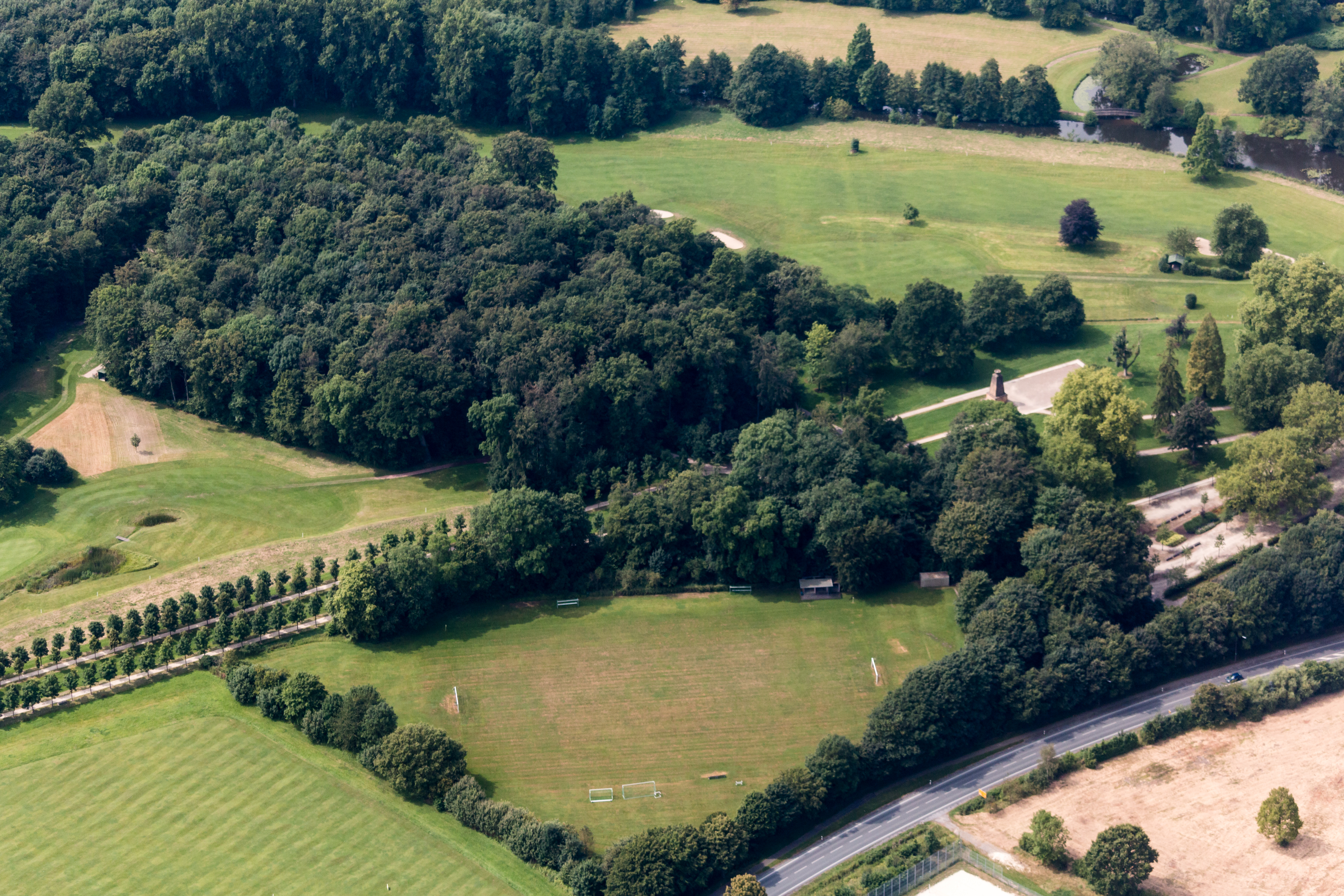 Monument “Erster Weltkrieg”, Burgsteinfurt, Steinfurt, North Rhine-Westphalia, Germany